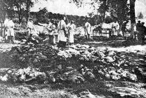 Comission identifies bodies in Vinnytsia